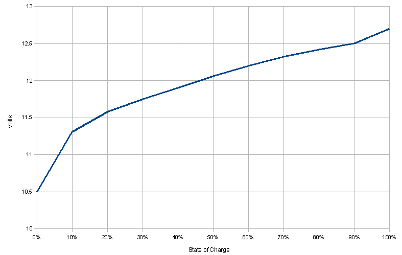 A lead-acid battery's open-circuit voltage can be used to estimate the state of charge, in this case for a 12 volt battery.